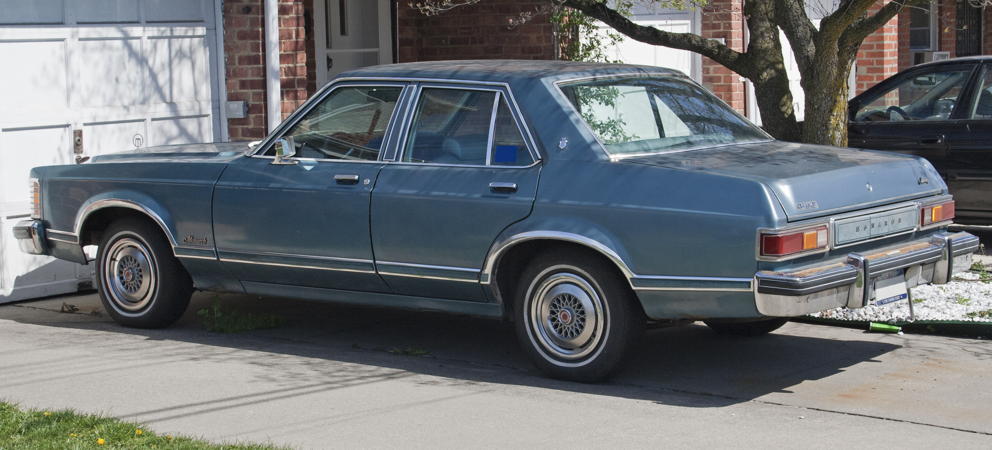 1976 Mercury Monarch